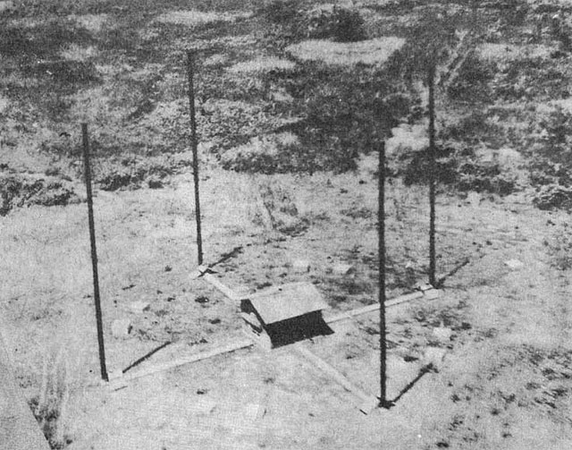 Original caption from CINCPAC 5-45: RABAUL, NEW BRITAIN -- Close up oblique of Japanese Adcock direction finder installation operating up to about 2 megacycles. The diagonal spacing of the unipoles is 90 feet. Each unipole is guyed by six wires anchored at their base ends in concrete blocks. Photo by P.I.C., Anacostia, D. C.